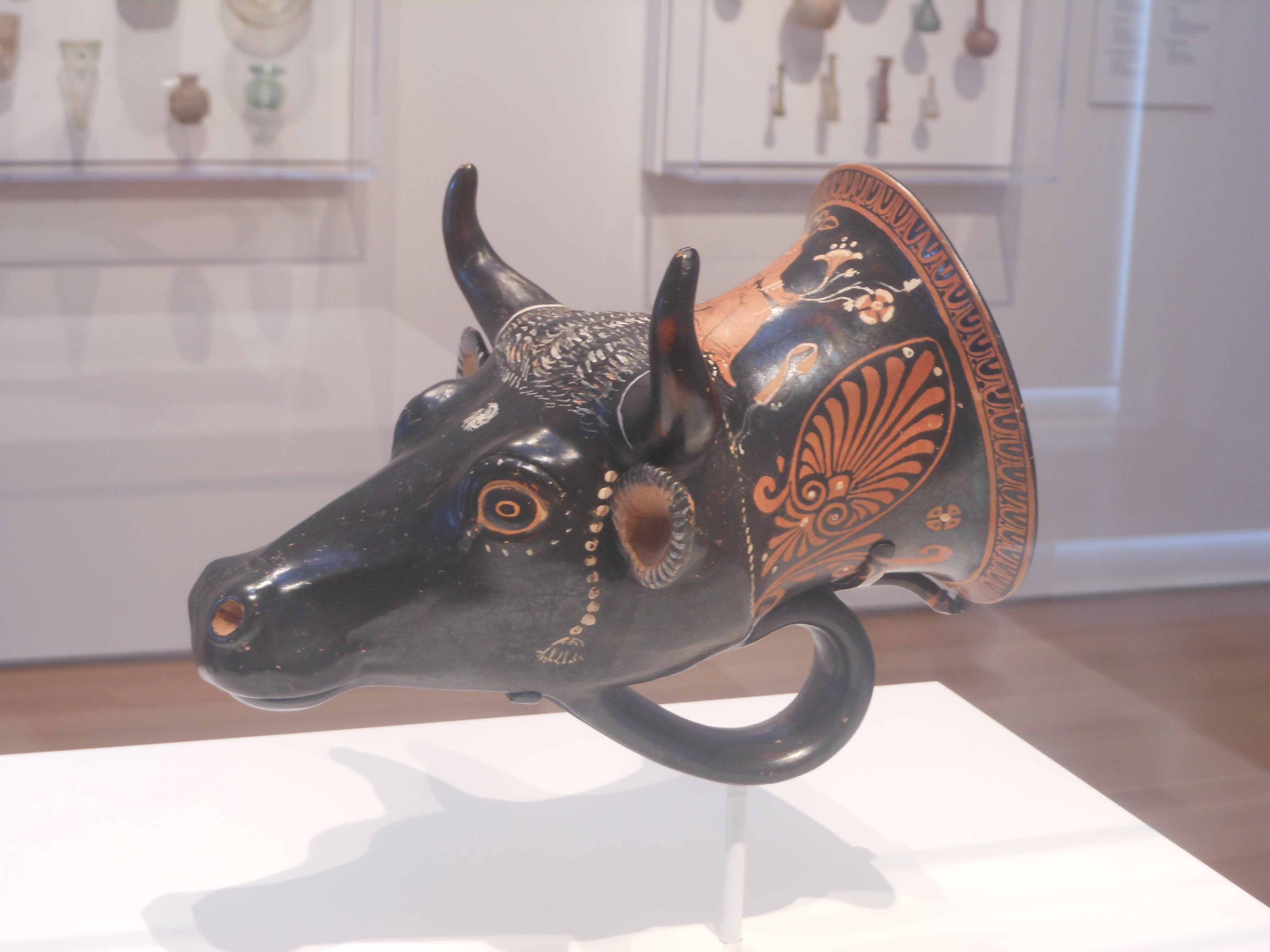 Ancient Greek Rhyton at North Carolina Museum of Art. Attributed to Darius Painter Workshop. Circa 360-340 BCE.